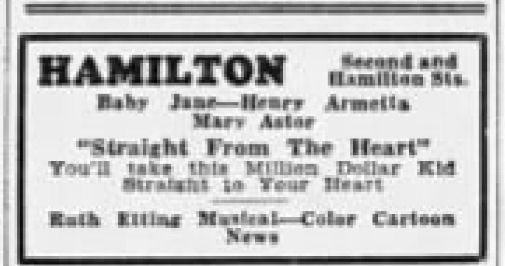 Hamilton Theater advertisement for the American film Straight from the Heart (1935) - 4 Sep. 1935 Morning Call, Allentown PA